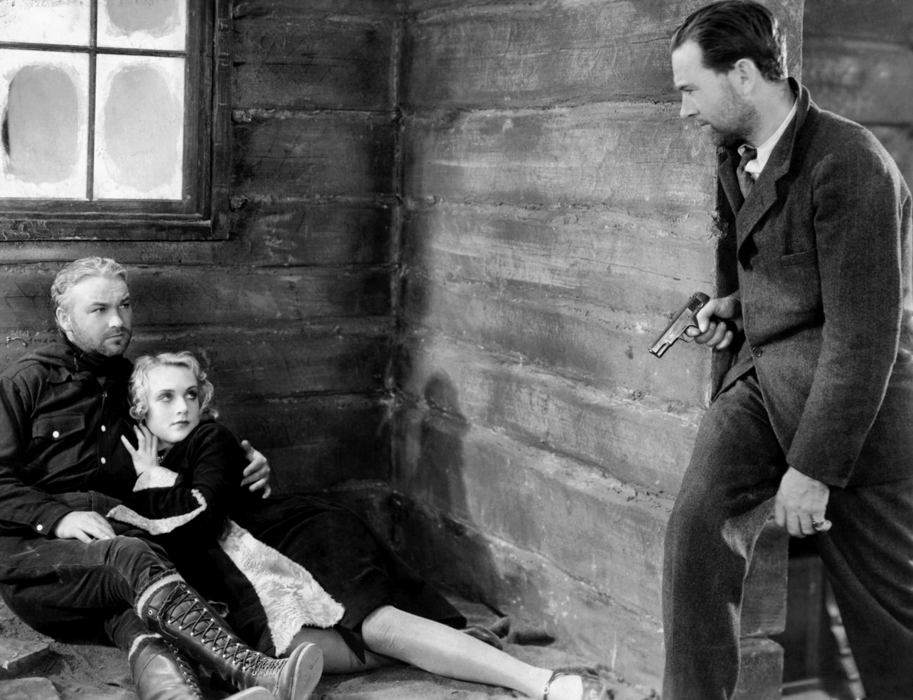 L. to R. : William Boyd, Carole Lombard & Owen Moore in High Voltage - cropped screenshot